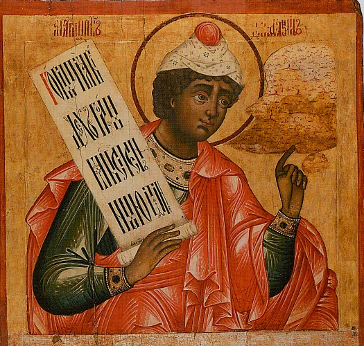 Prophet Daniel, Russian icon from first quarter of 18th cen.